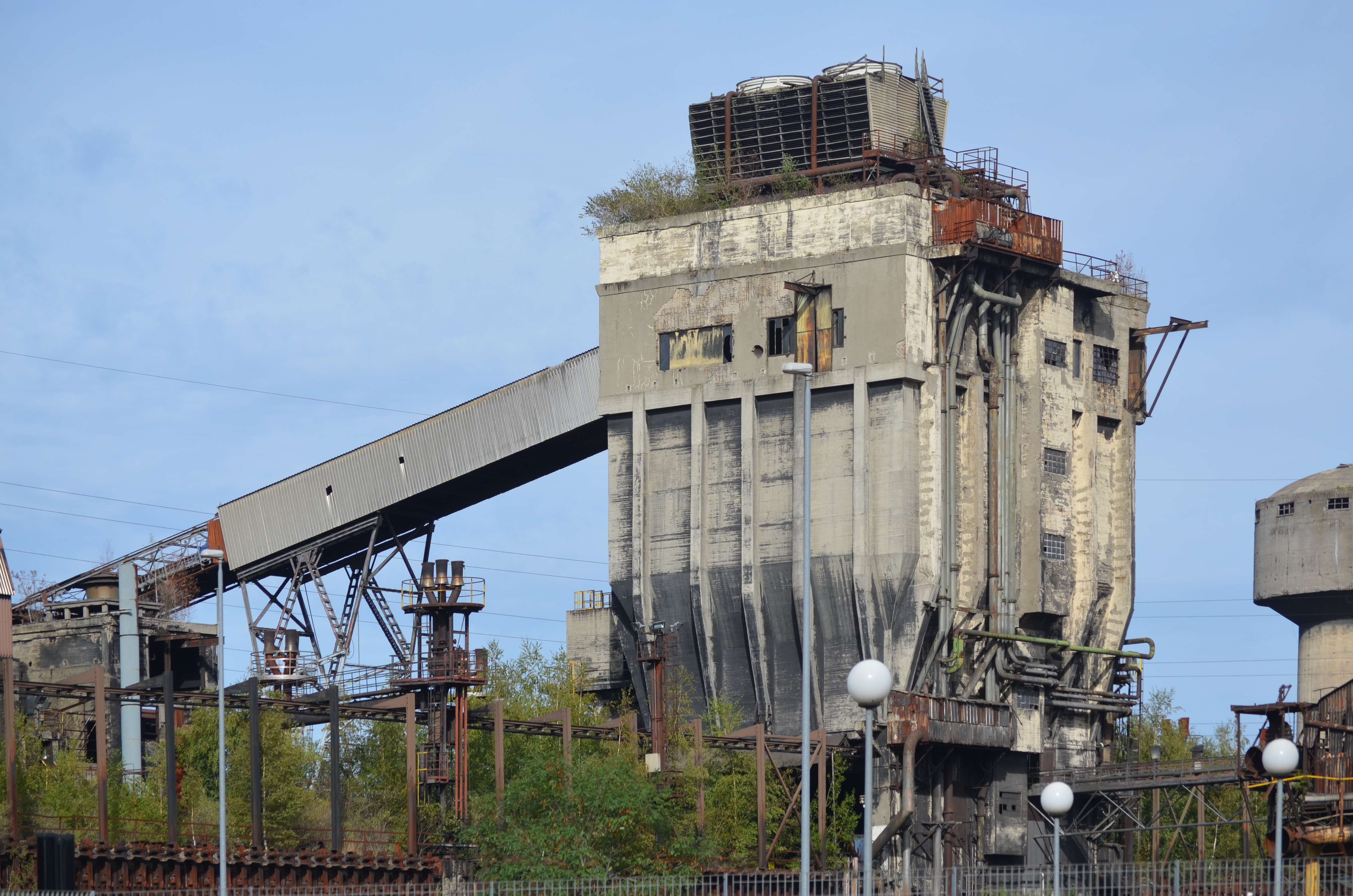 Marchienne-au-Pont (Charleroi-Belgium) - Former coke oven.